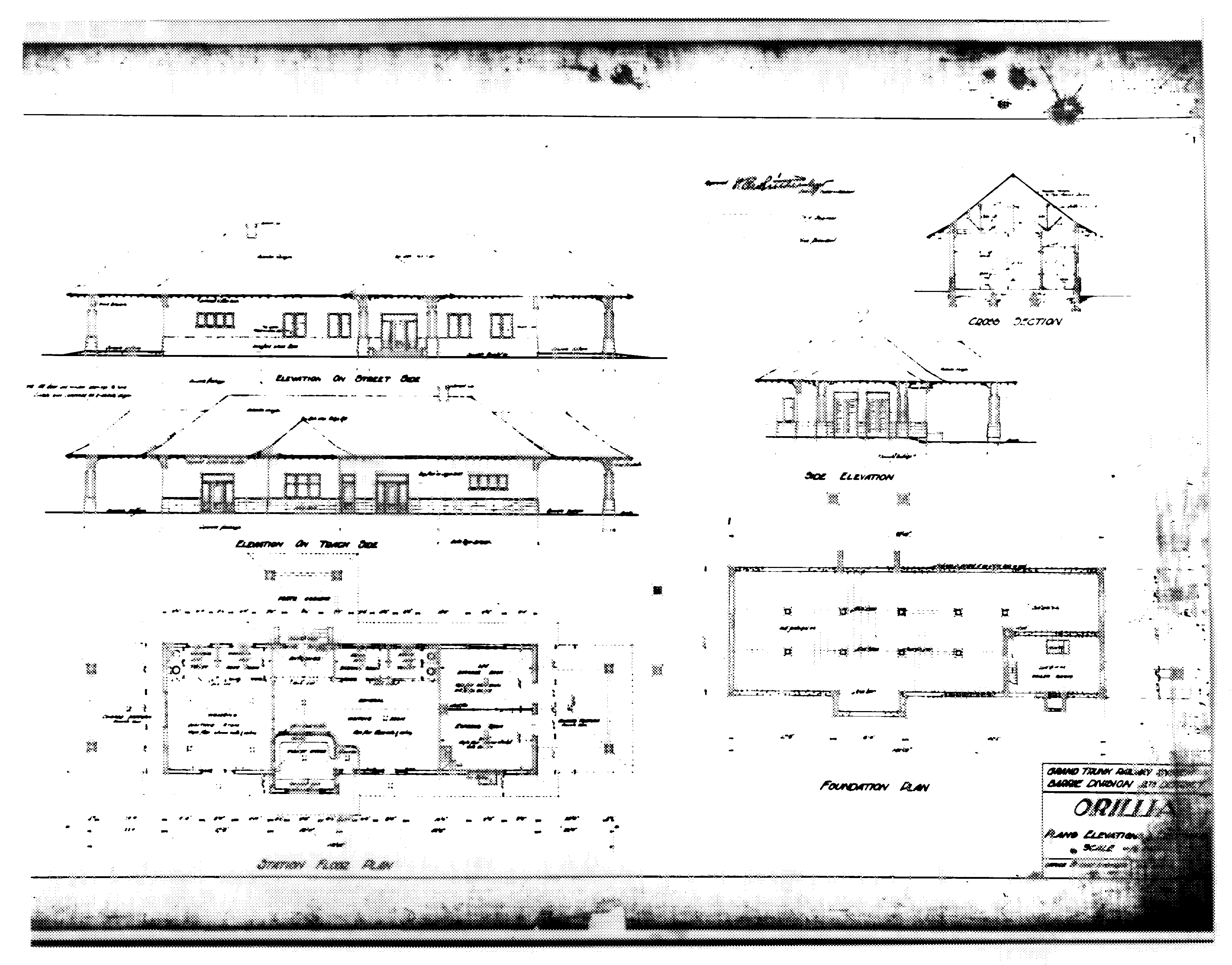 Original blueprint drawings for the GTR Station in Orillia, Ontario. From Library and Archives Canada, NMC 96816. Extracted from a pdf emailed to the uploader by Parks Canada.